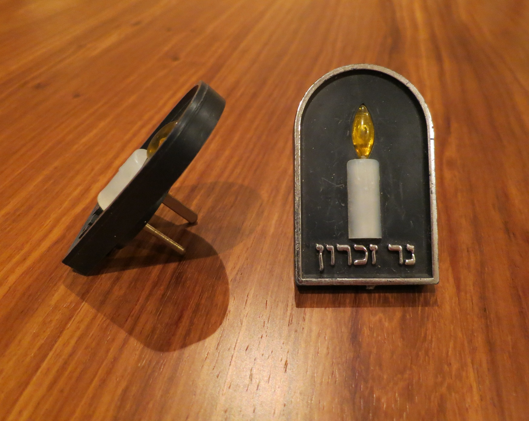 A memorial candle with a light bulb